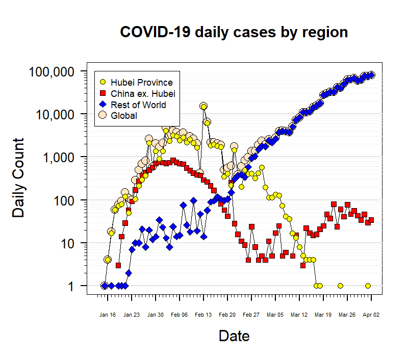 Coronavirus daily cases by region: Hubei Province, Mainland China, Rest of World, and Global Total